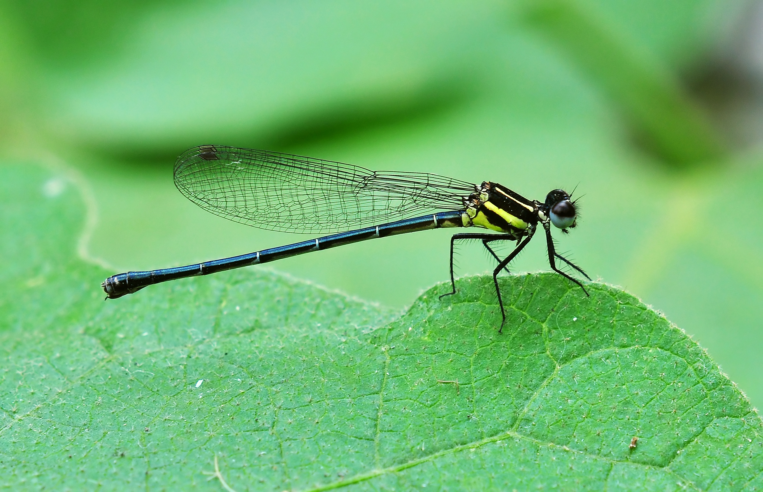 Onychargia atrocyana female. A medium sized (Abdomen 30mm and hindwing 20mm) black damselfly with pale yellowish white stripes. Found along the banks of large ponds and rivers, usually sitting among emergent water plants. Distributed in Western Ghats, Northeast India extending to Southeast Asia. Taken at Burdwan, West Bengal, India.